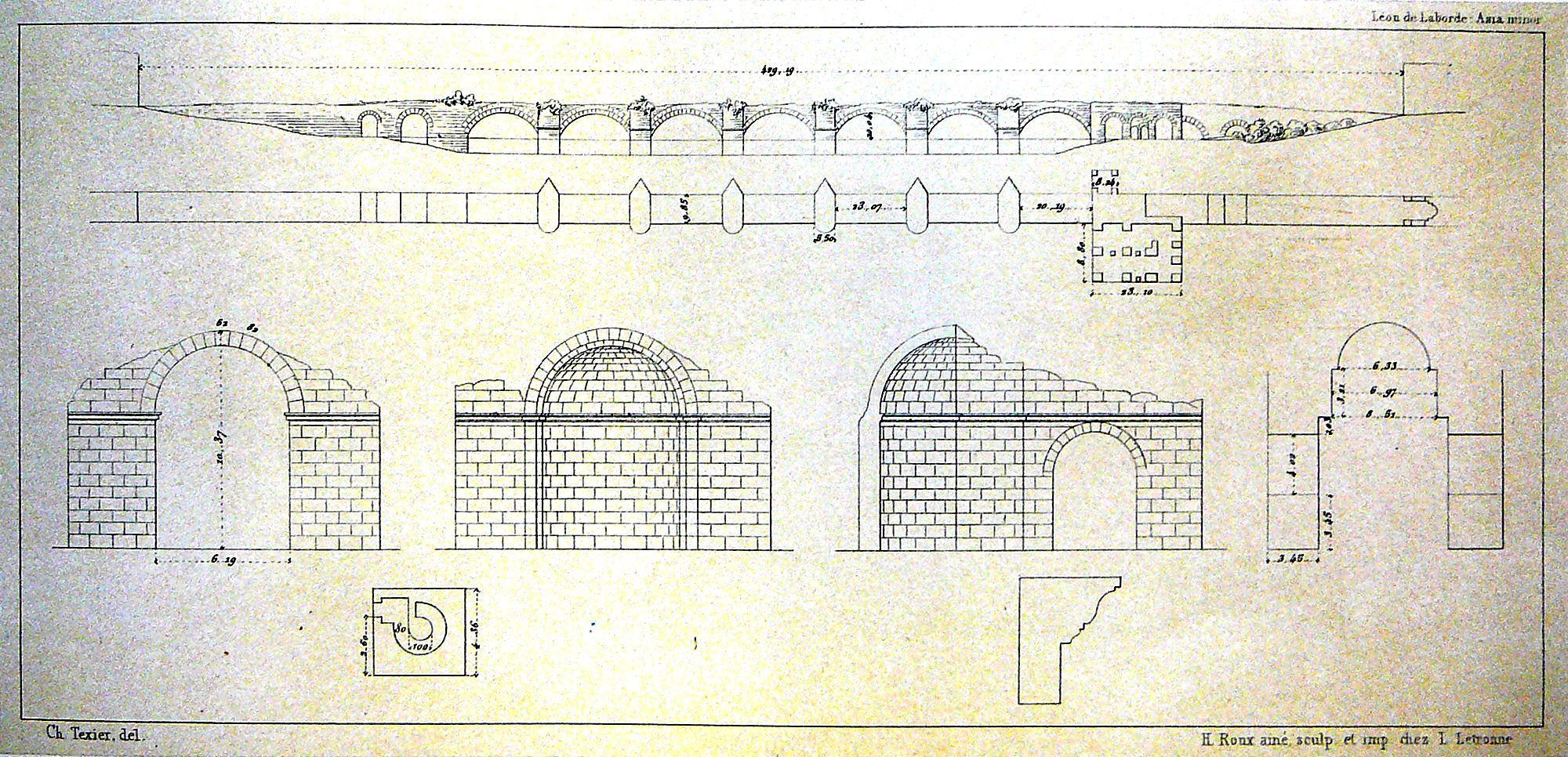 Drawing of the late Roman Sangarius Bridge, Turkey, from 1838. Above side and top view, below the vanished triumphal arch in the west and the still existing conch in the east of the bridge.